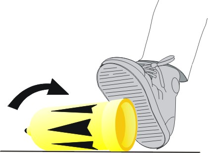 Initial activation of the large Footop. The foot is positioned near the open end of the top. The arrow shows the direction of the activation motion.